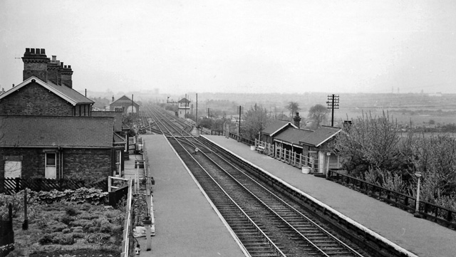 Bolton-on-Dearne Station. View northward, towards Knottingley and York; ex-Midland&NE Joint (Swinton & Knottingley) main line.